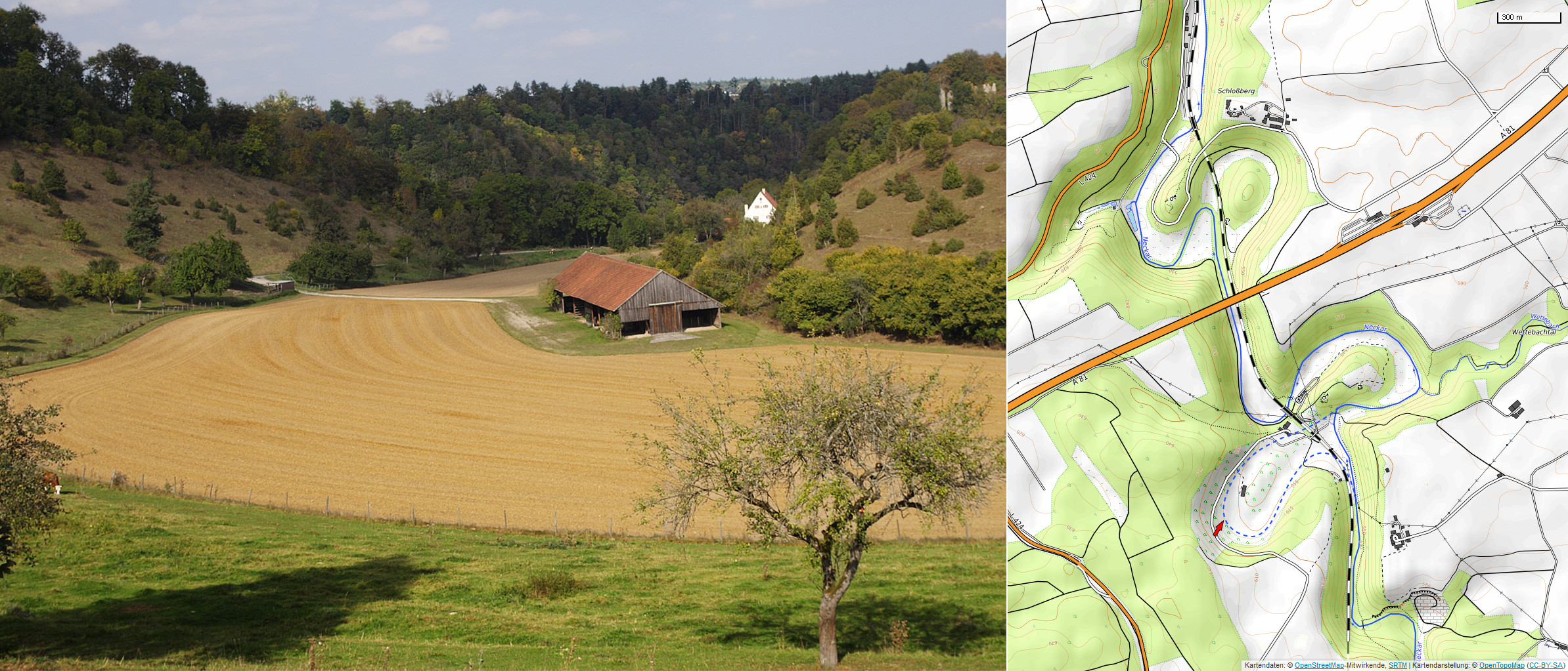 Abandoned and dried-up bend/loop of the Neckar river valley incised into the Triassic plateau NW of the Swabian Alb, a few kilometers north/downstream from Rottweil, Baden-Wurttemberg, southwestern Germany. At the upper right of the photograph there are two hills/mounds, one lying behind the other. They represent two adjacent cores or spurs of entrenched meanders of the Neckar. On top of the hill in the back, which is not only higher but also an active meander spur that has only been isolated from the surrounding plateau by a railroad cutting through its neck (see map), there are the overgrown ruins of the Neckarburg (“Neckar castle”) visible. In the map to the right, a red arrow marks the position and viewing direction of the photographer, and the blue dashed line marks the inferred former course of the Neckar river. Furthermore, there is a third meander core hill visible on the map which is a bit further to the north/downstream.